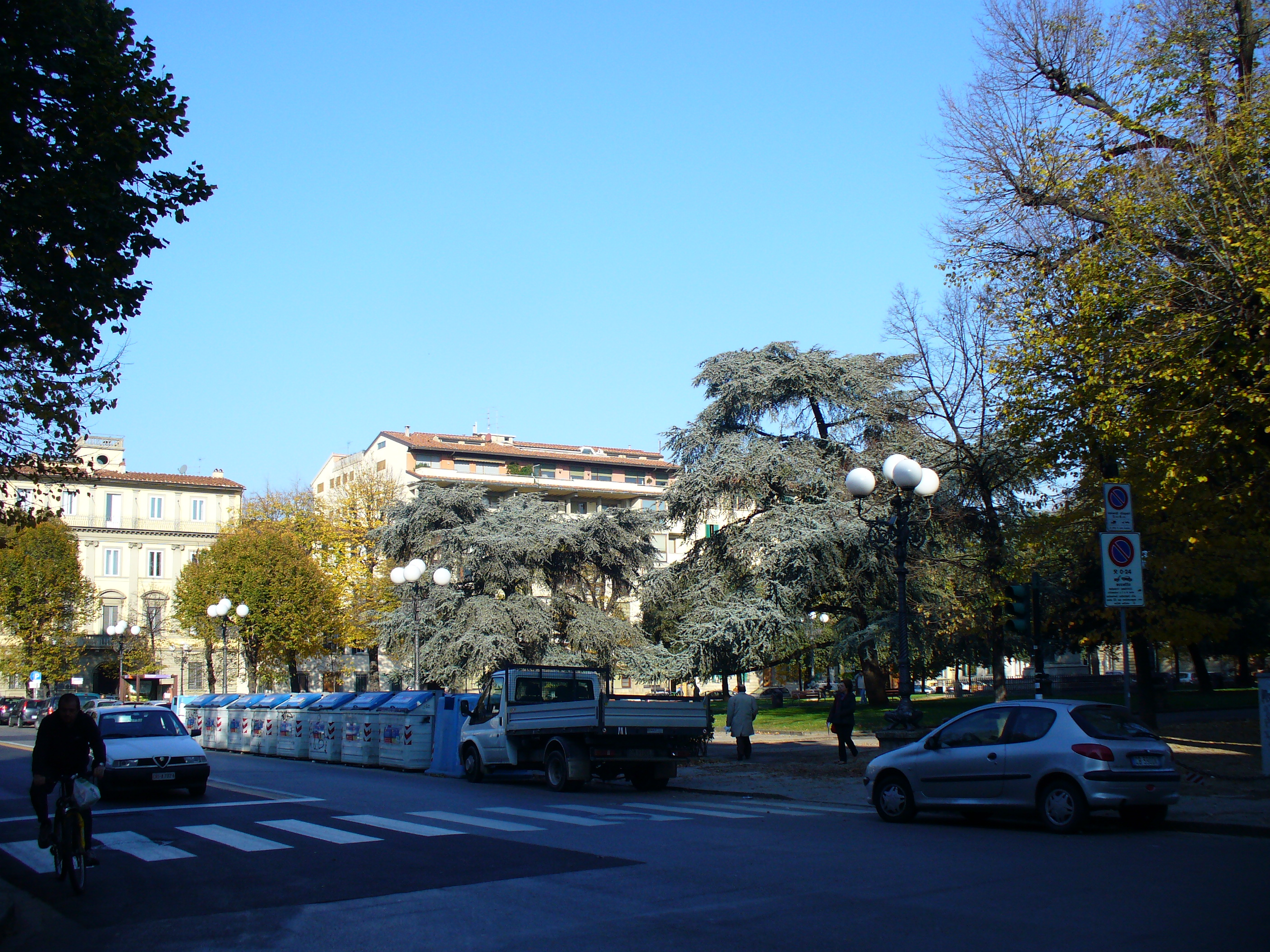 Piazza dell'Indipendenza (Florence)